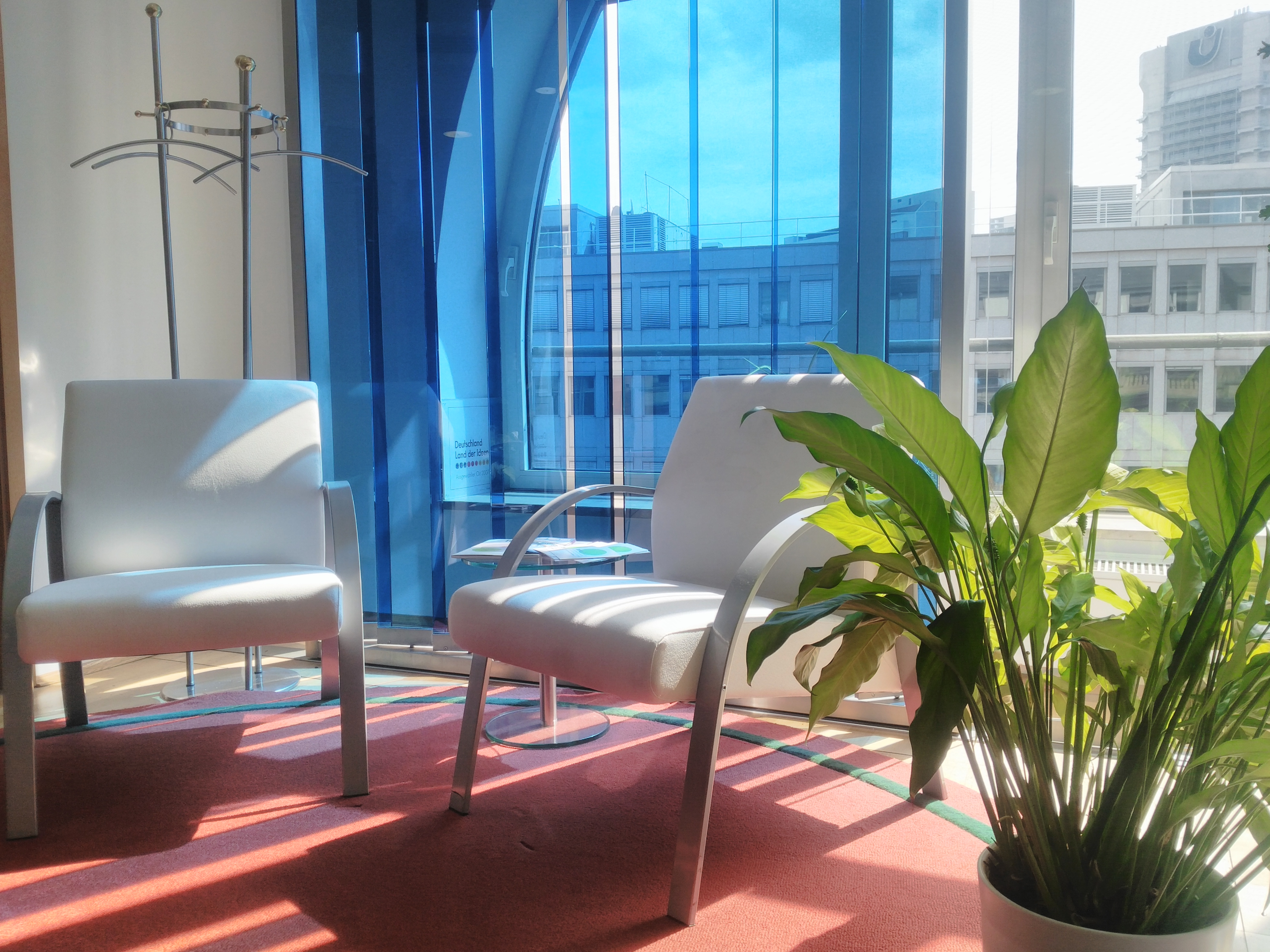 Welcome area.